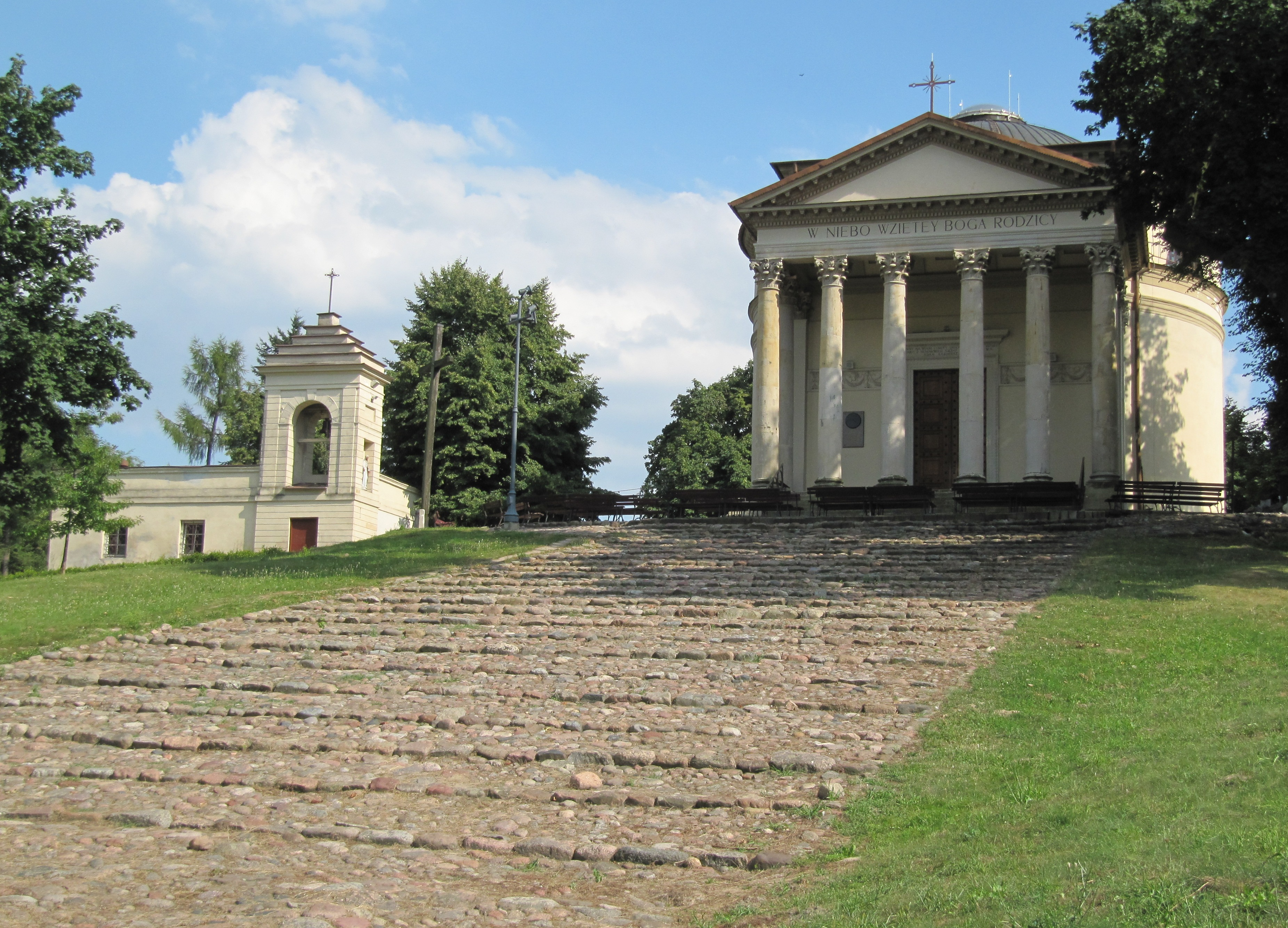 Church of the Assumption of Mary in Puławy, Poland.